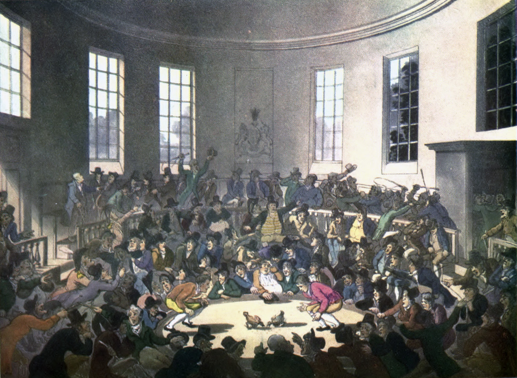 Royal Cock Pit